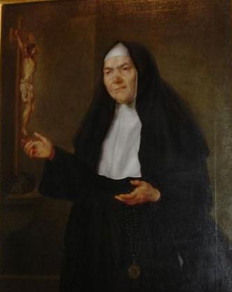 Portrait of blessed Francinaina Cirer, at her Sencelles (Majorca) birth house.